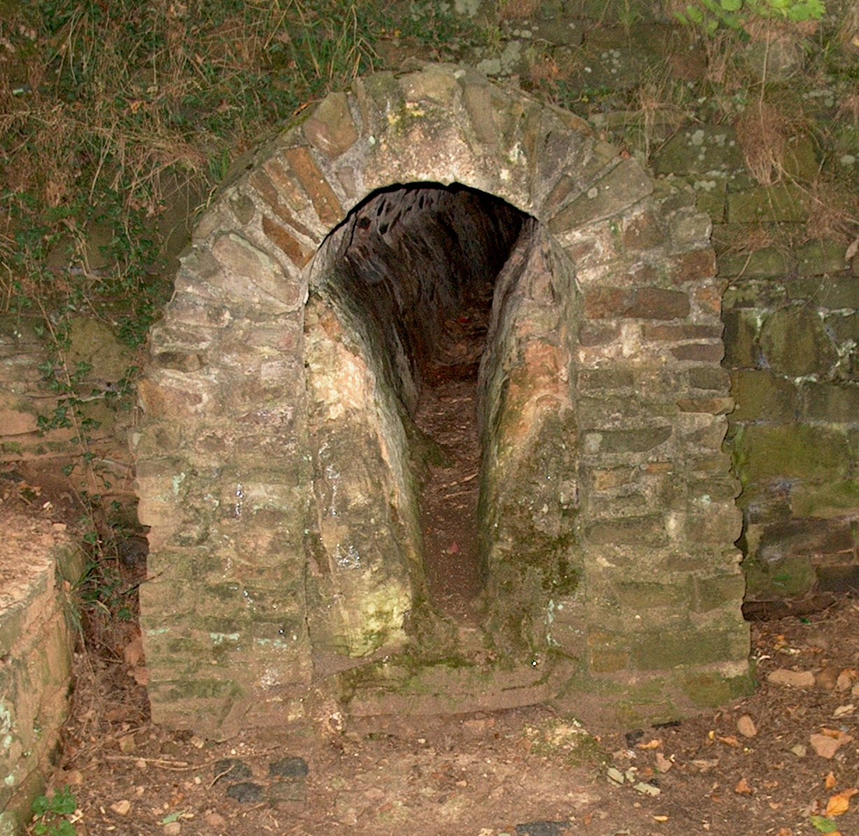 View into the remains of the Eifel aqueduct near Euskirchen-Kreuzweingarten, Germany, showing heavy accretions of lime on the conduit walls.